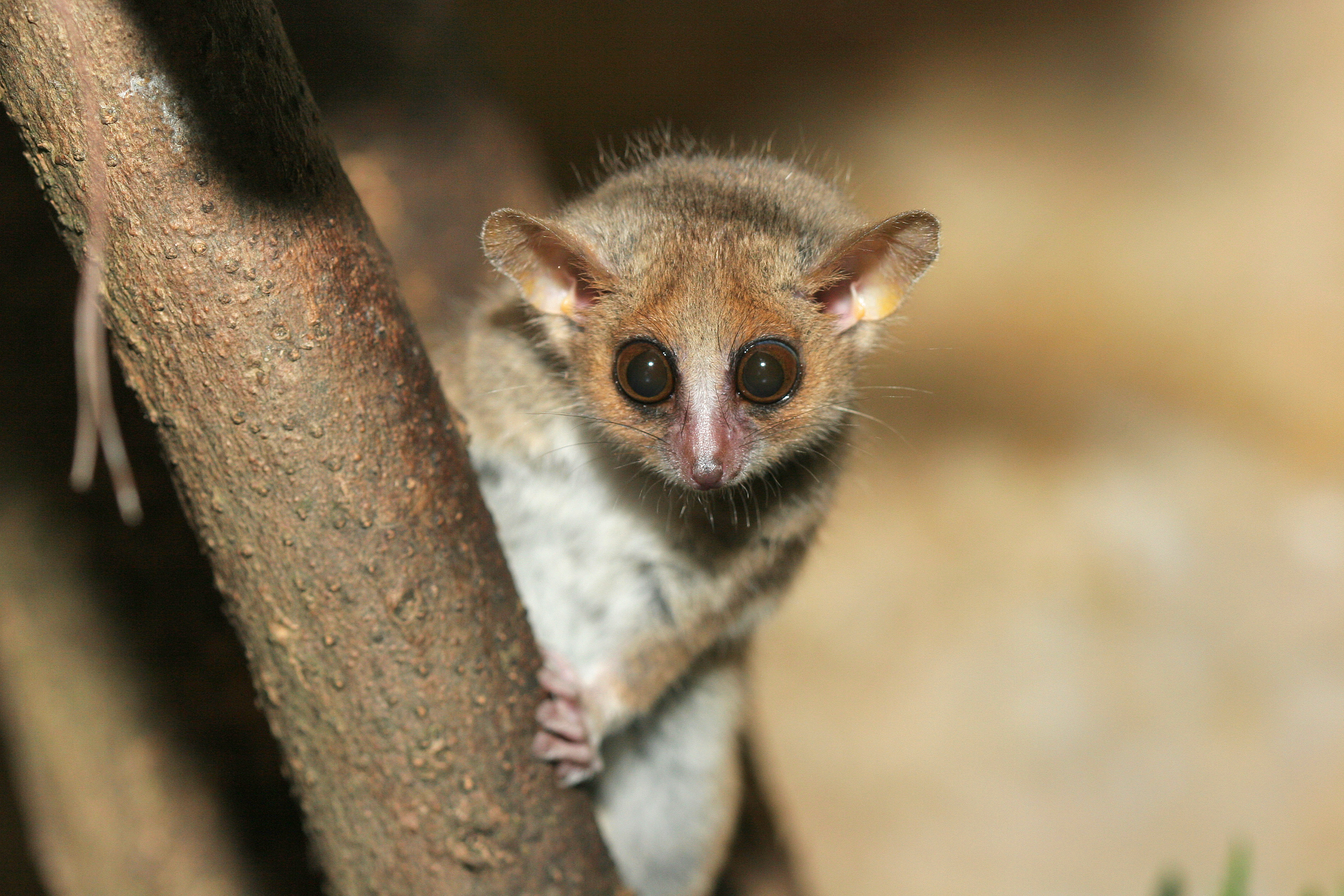 Gray Mouse Lemur at Artis Zoo, Amsterdam, Netherlands.